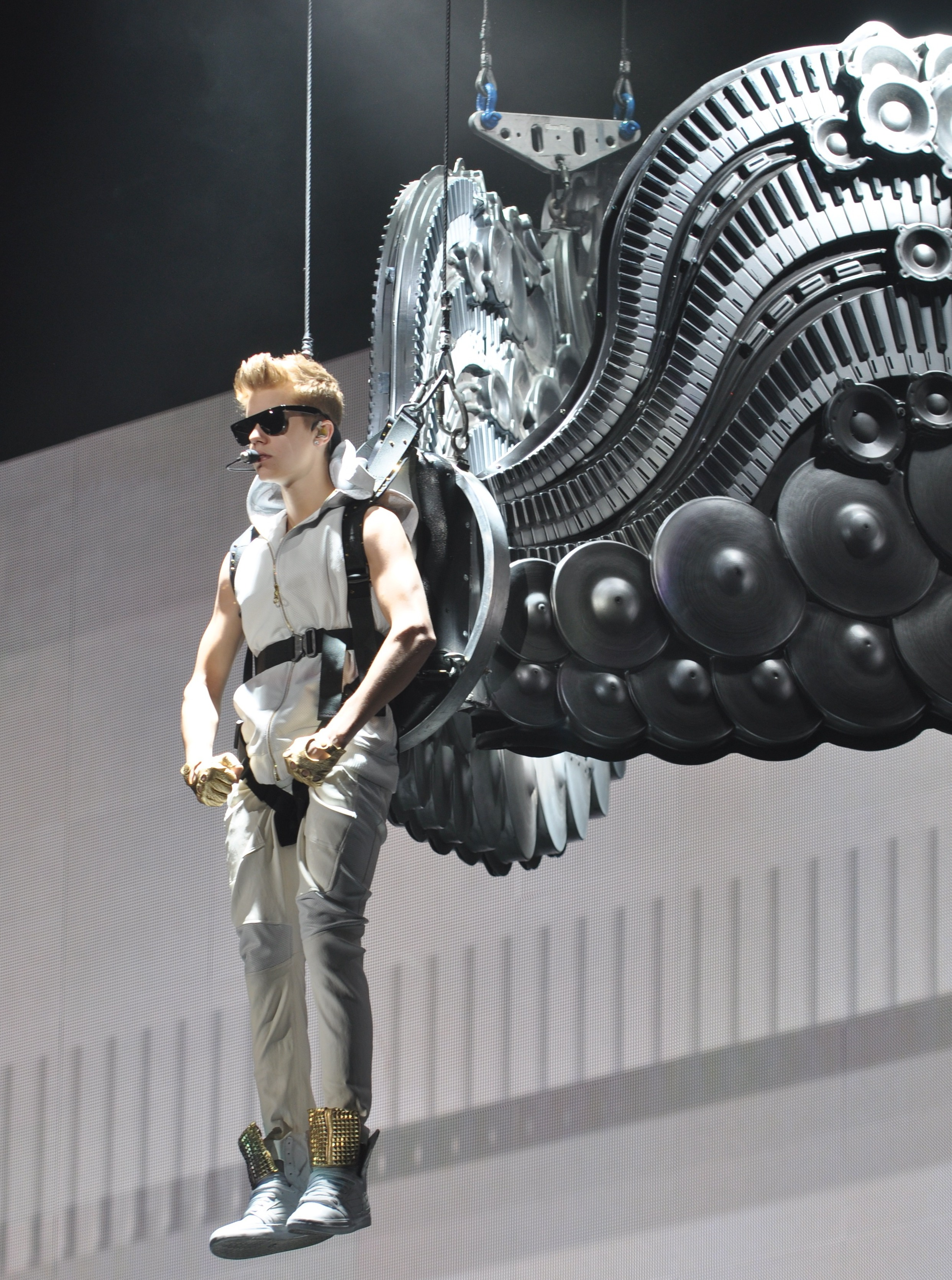 Justin Bieber performing Believe Tour in October 20, 2012.